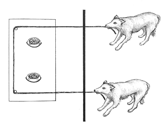 A sketch of a cooperative pulling experiment with dogs. Only if the dogs pull the rope in coordination will the platform move towards them so they can get to their food rewards.